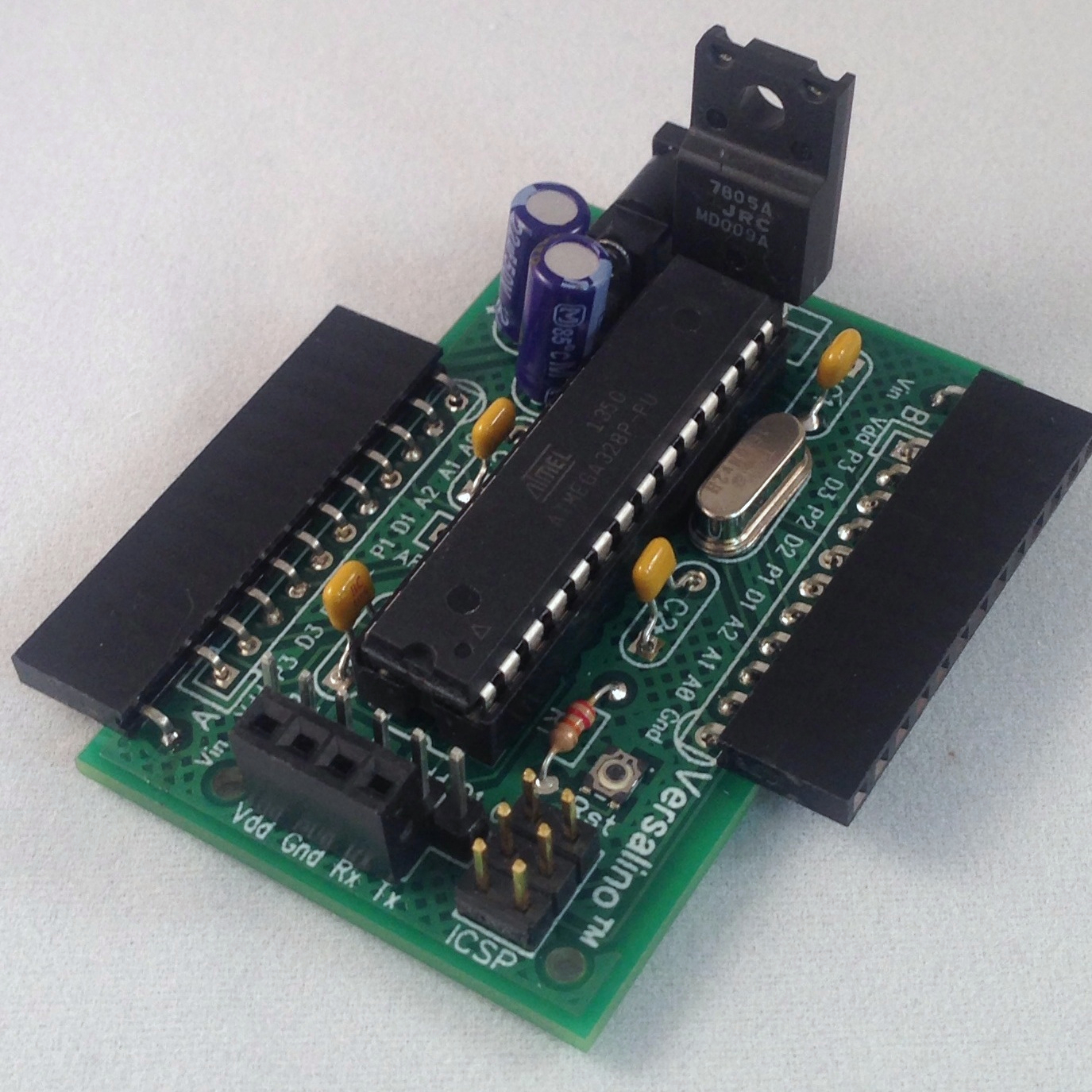 Versalino Uno 1.1 an Arduino software compatible micro controller board by Virtuabotix